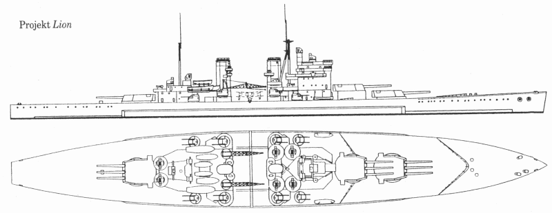 the HMS Lion on Blueprint Design